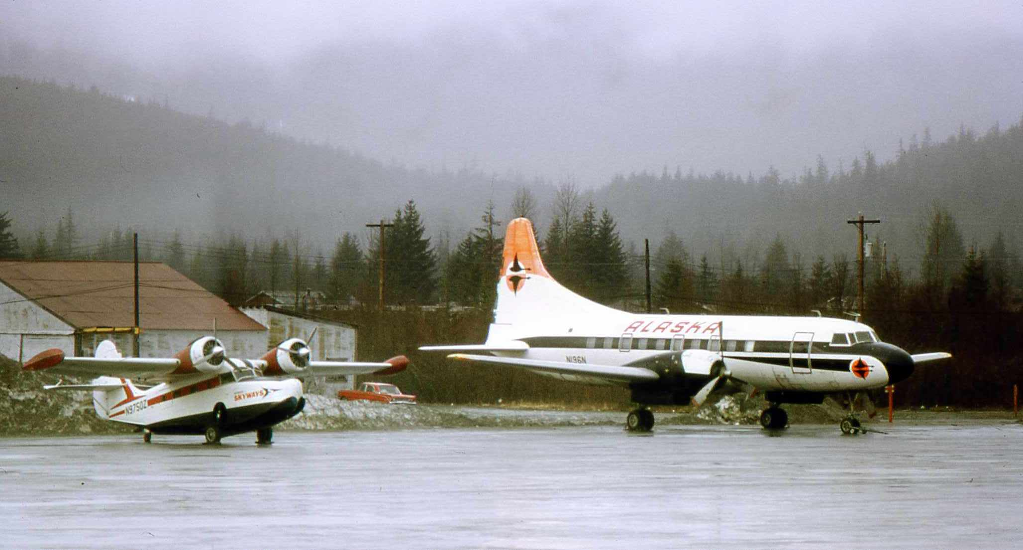 Alaska Coastal Airlines Convair CV-240 N196N taken at Merrill Field in 1972. The smaller aircraft is a Grumman G-21A Goose, Southeast Skyways with airworthiness date March 23, 1961